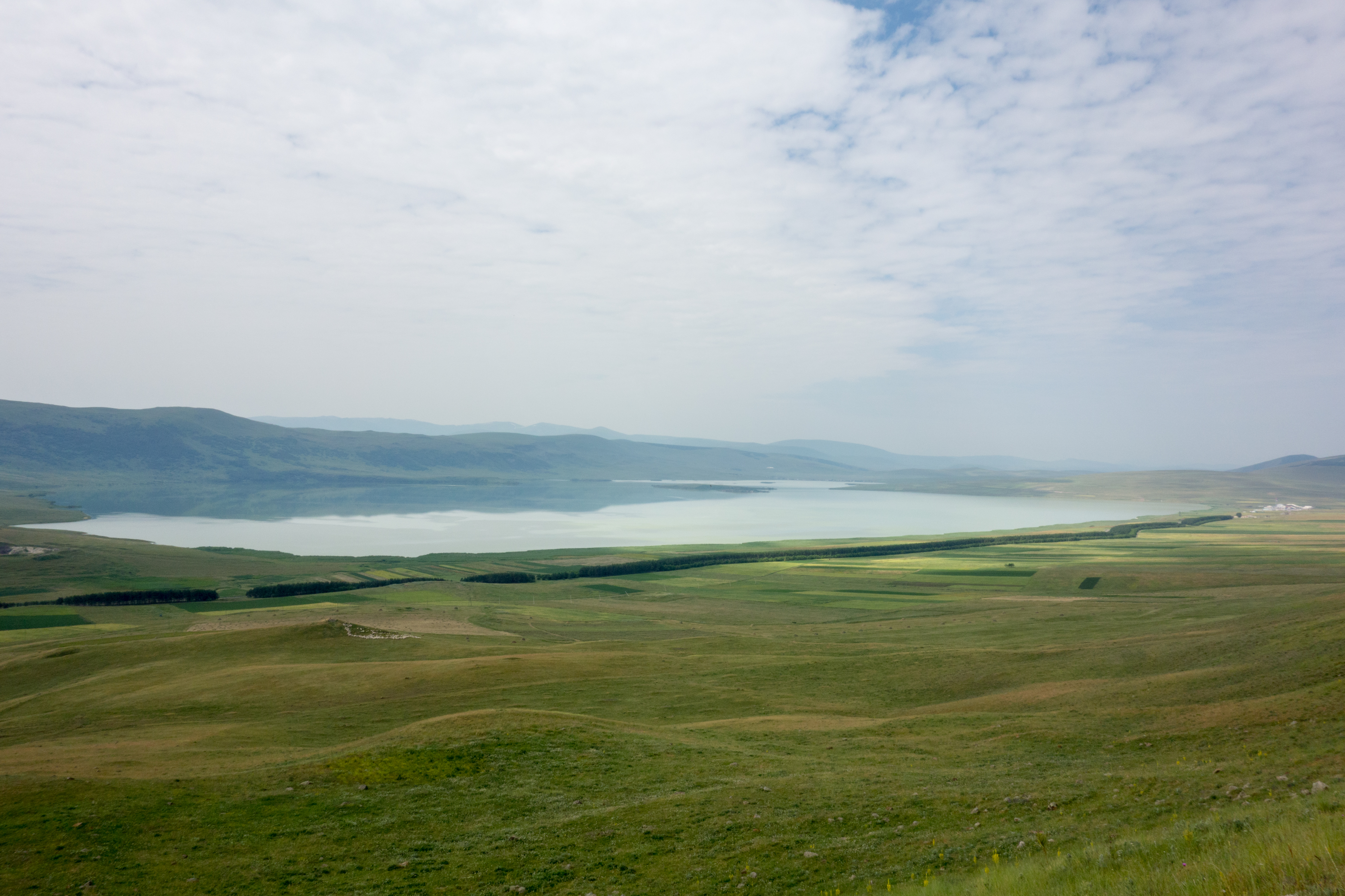 Kartsakhi Lake, Samtskhe-Javakheti, Georgia